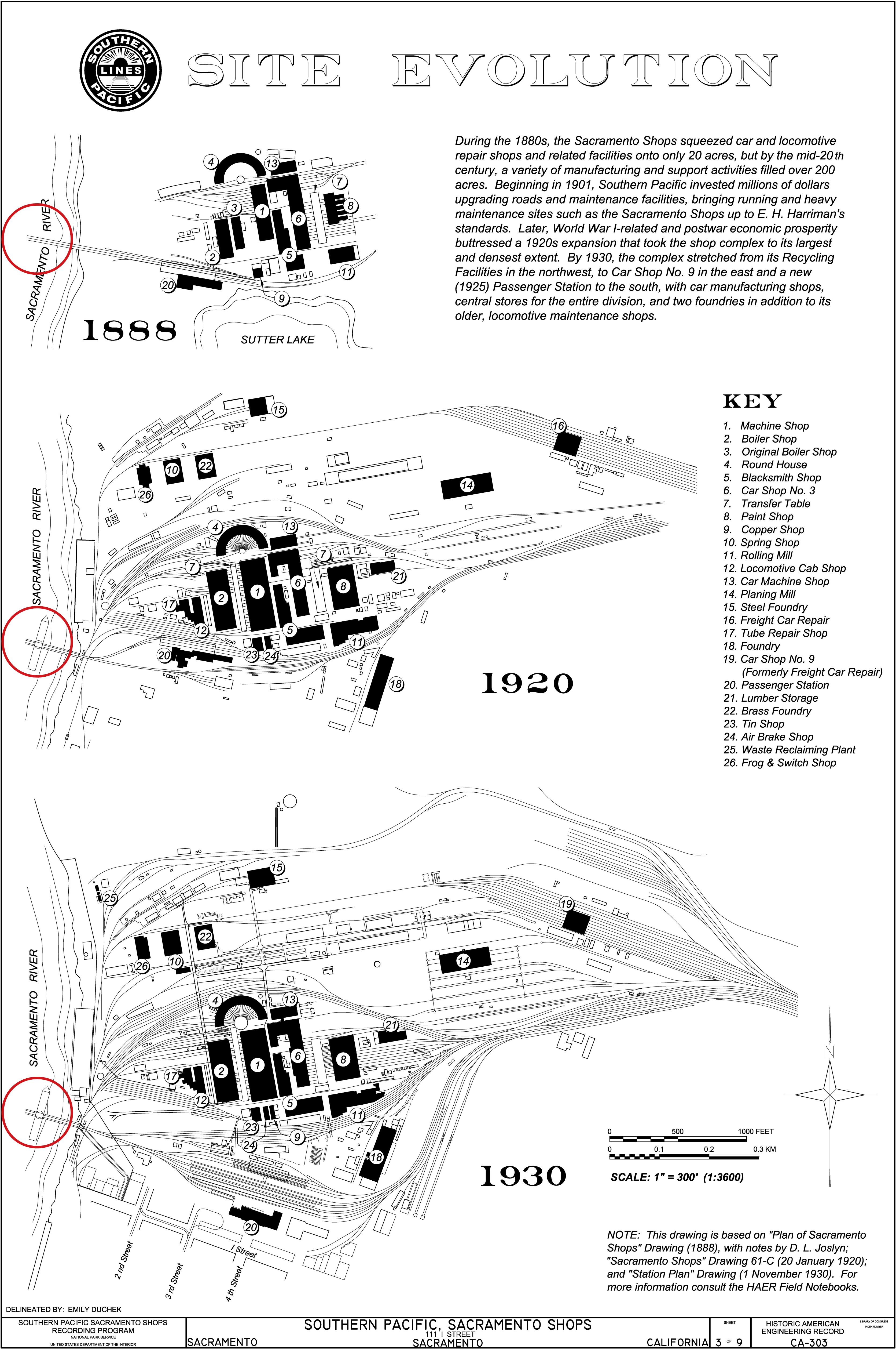 Site Evolution - Southern Pacific, Sacramento Shops. The largest and most comprehensive railroad heavy repair facilities in the Western United States, the unusually self-sufficient Sacramento Shops repaired locomotives and cars throughout its life and built new ones as late as 1937. Marked with red circles are the current I Street Bridge and predecessors.